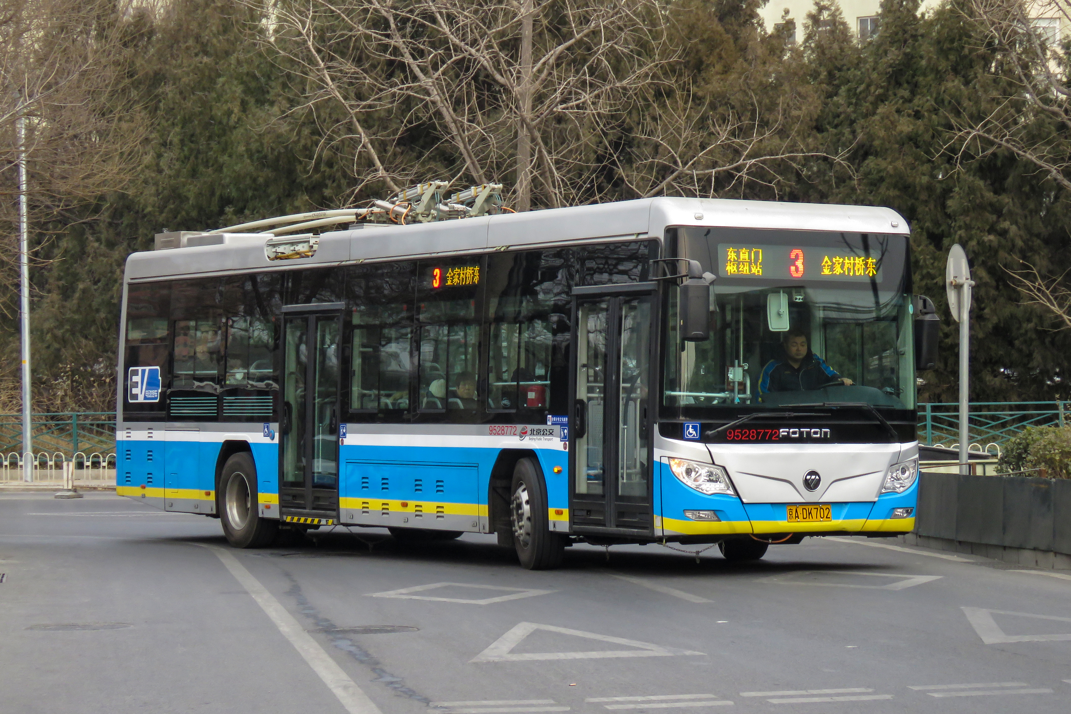 Currently Route 3 has several trolleybuses, but not all.